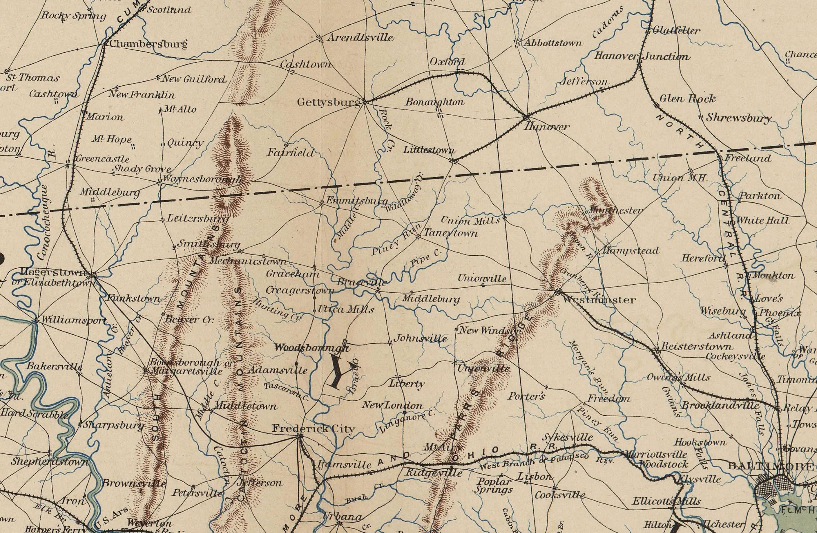 Maryland and Pennsylvania in 1863